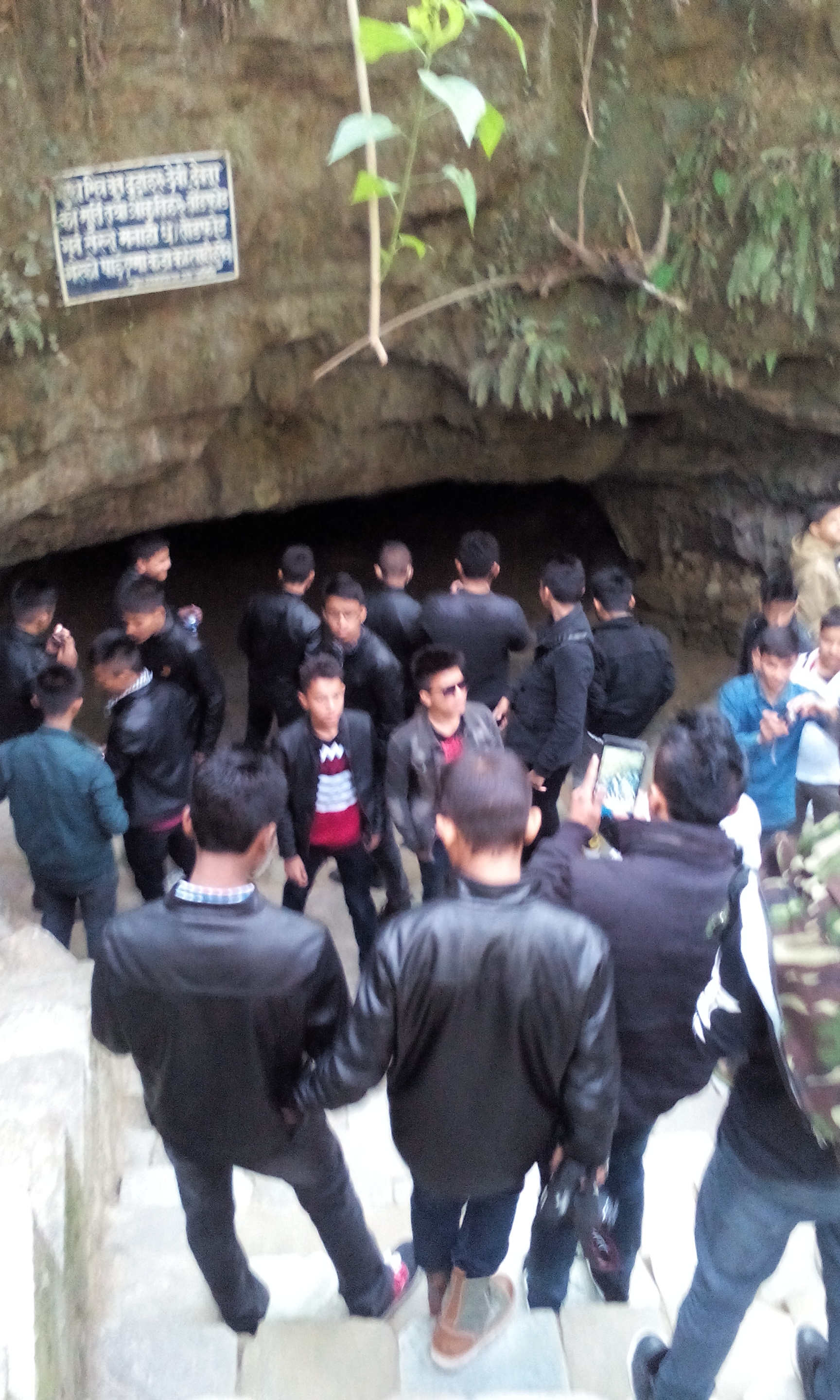 It is situated in pokhara,Nepal. it is the longest and biggest cave of nepal which is full of bat #WELNEPAL #WEL2015